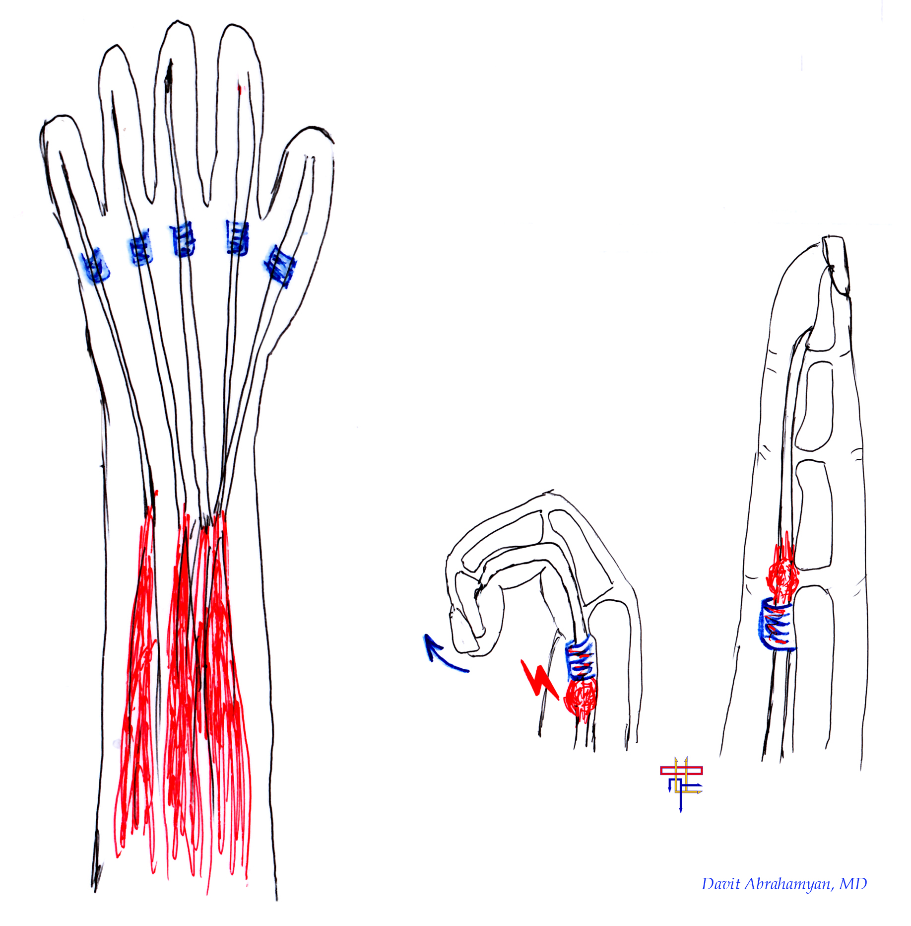 Trigger finger